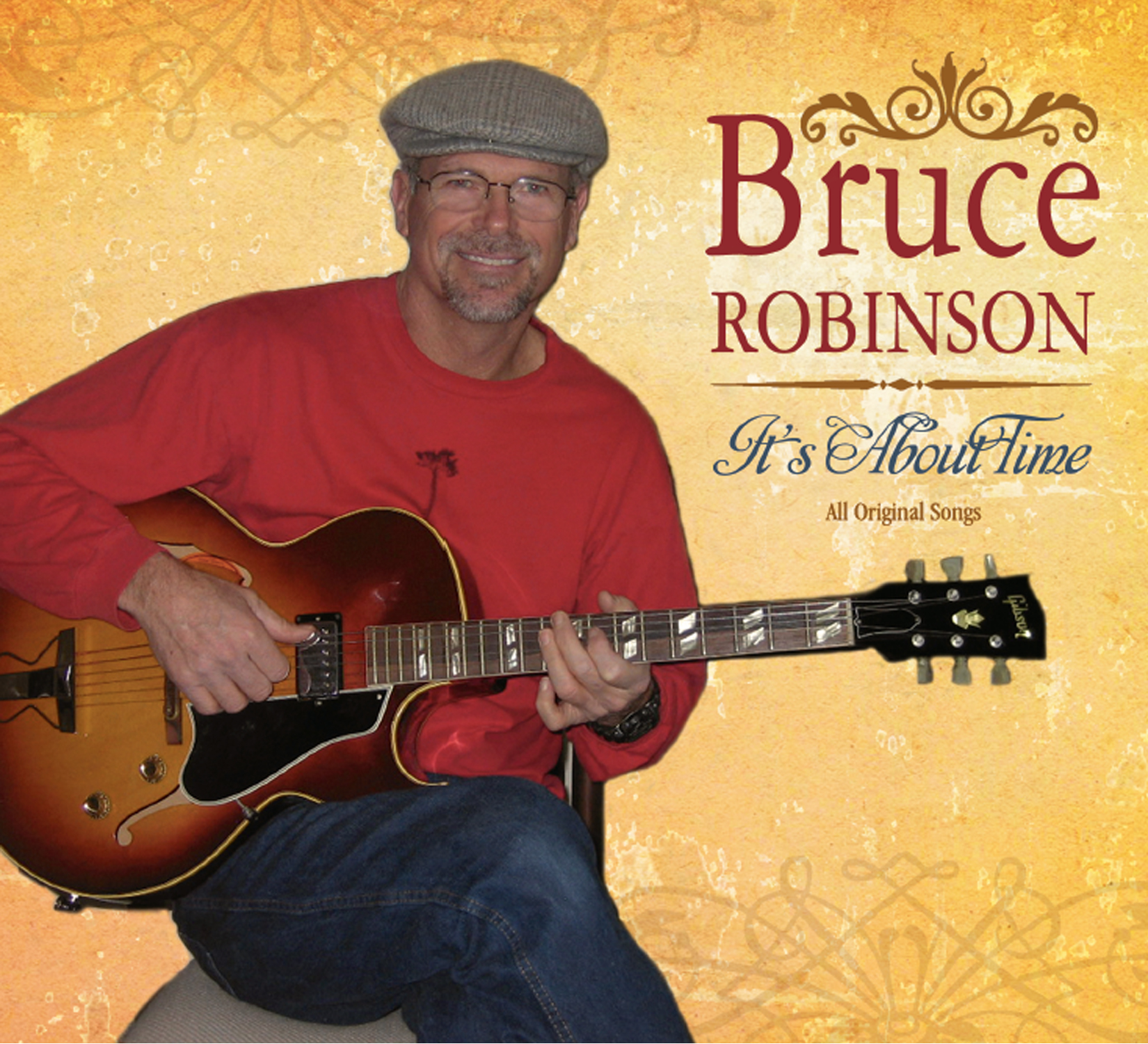 Bruce Robinson's 1st music cd, It's About Time January 2012